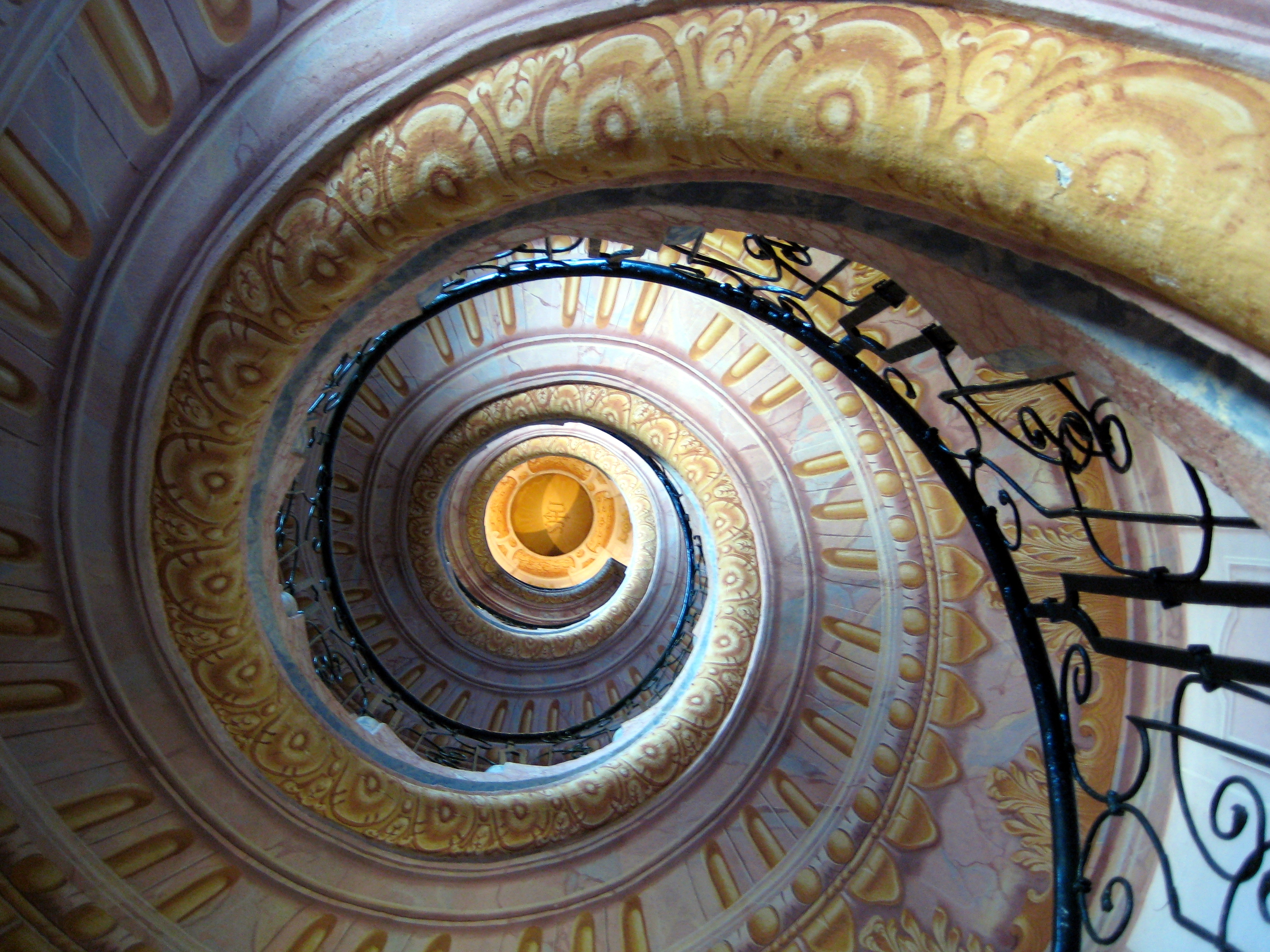 Melk Abbey, Lower Austria, staircase between library and church